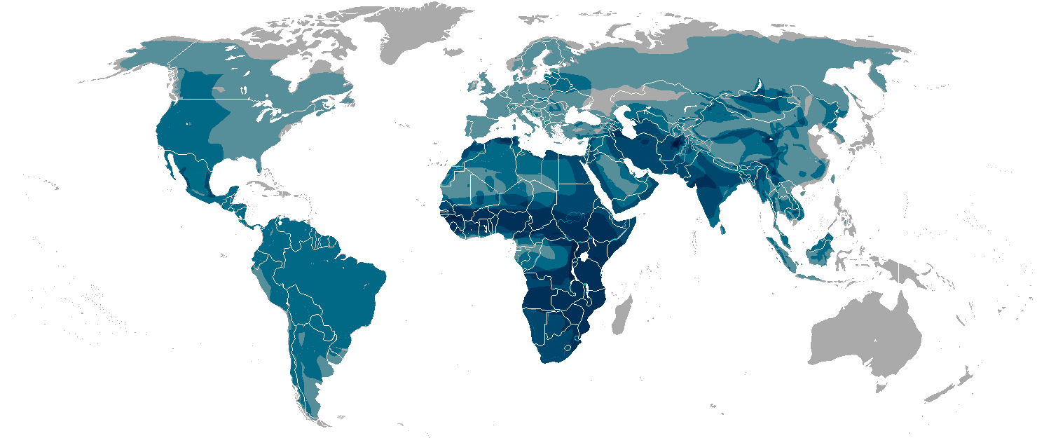 Composite overlay of the child taxa's maps.